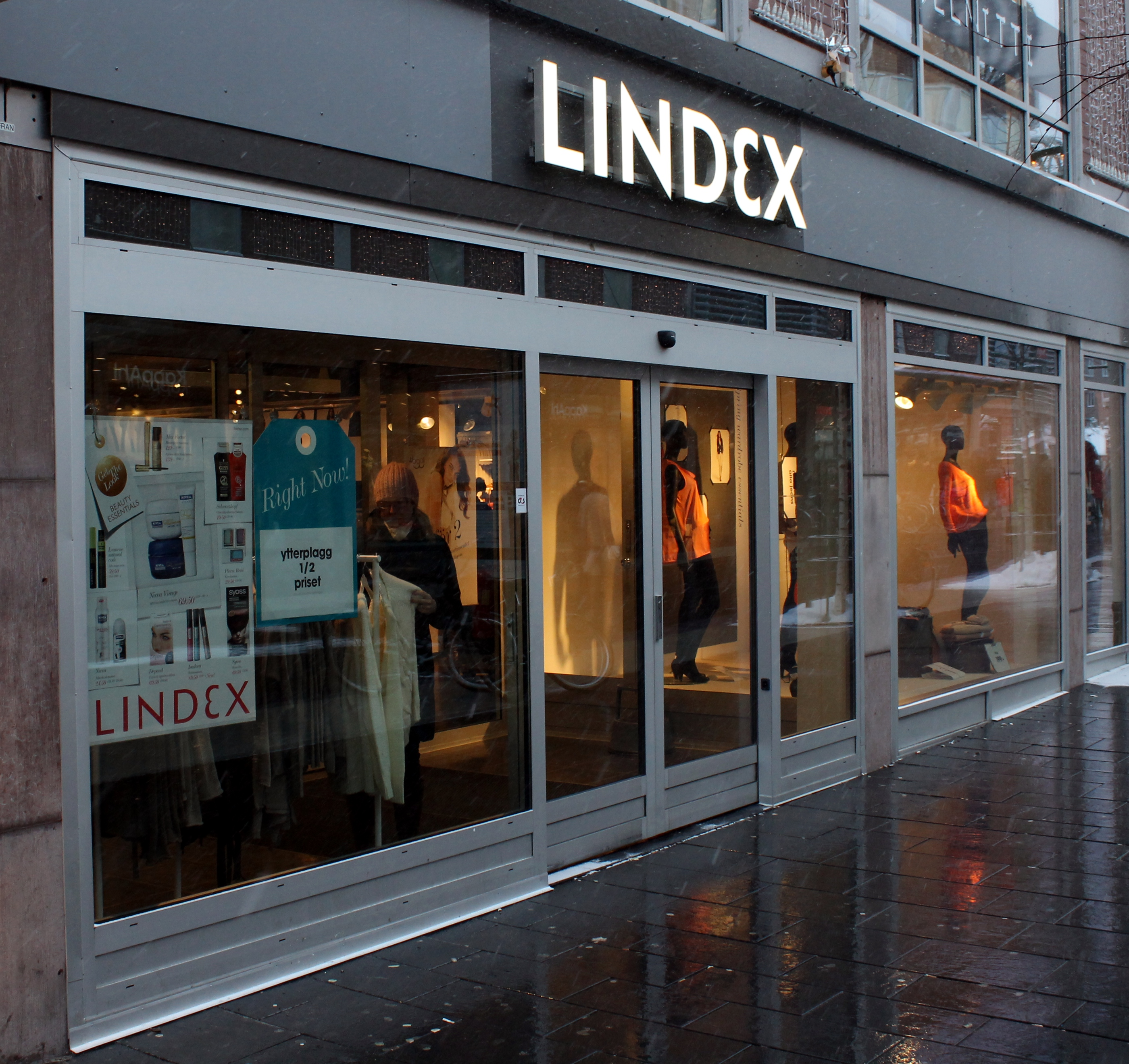 Lindex in Umeå, Sweden.